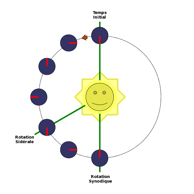 Sidereal and synodic rotation schema